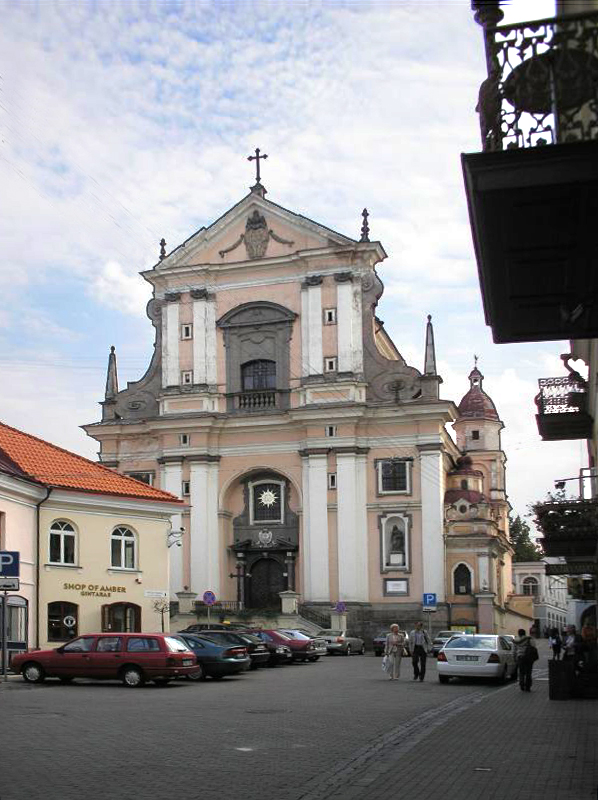 St. Teresas' Church